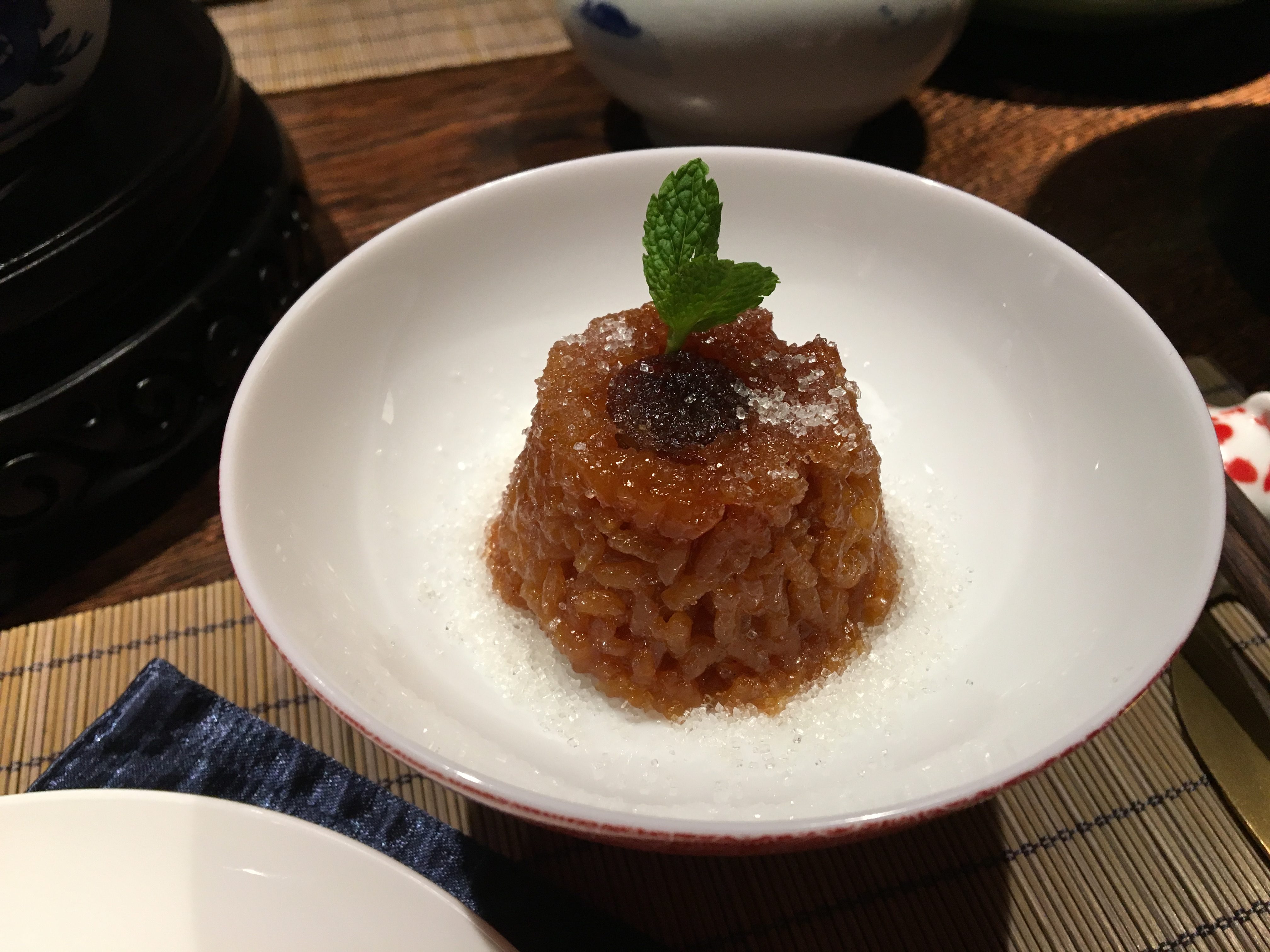 Longan Shao Bai, a variety of sweet Shao Bai